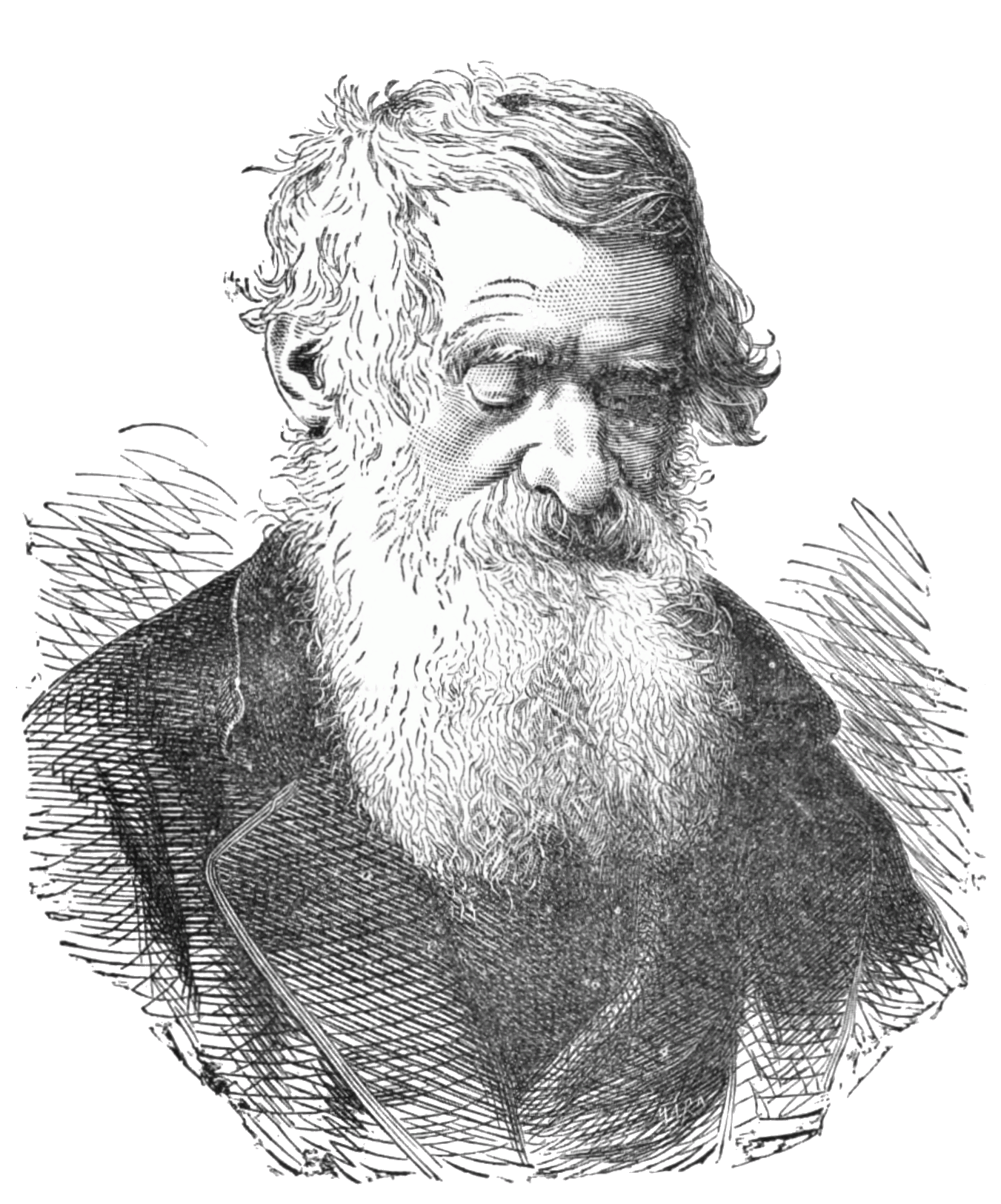 Niccolò Tommaseo (1802-1874), Italian linguist, essayist and writer